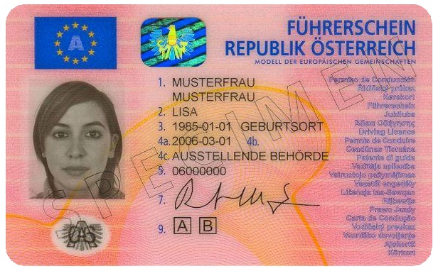 The front of the Austrian driving licence.